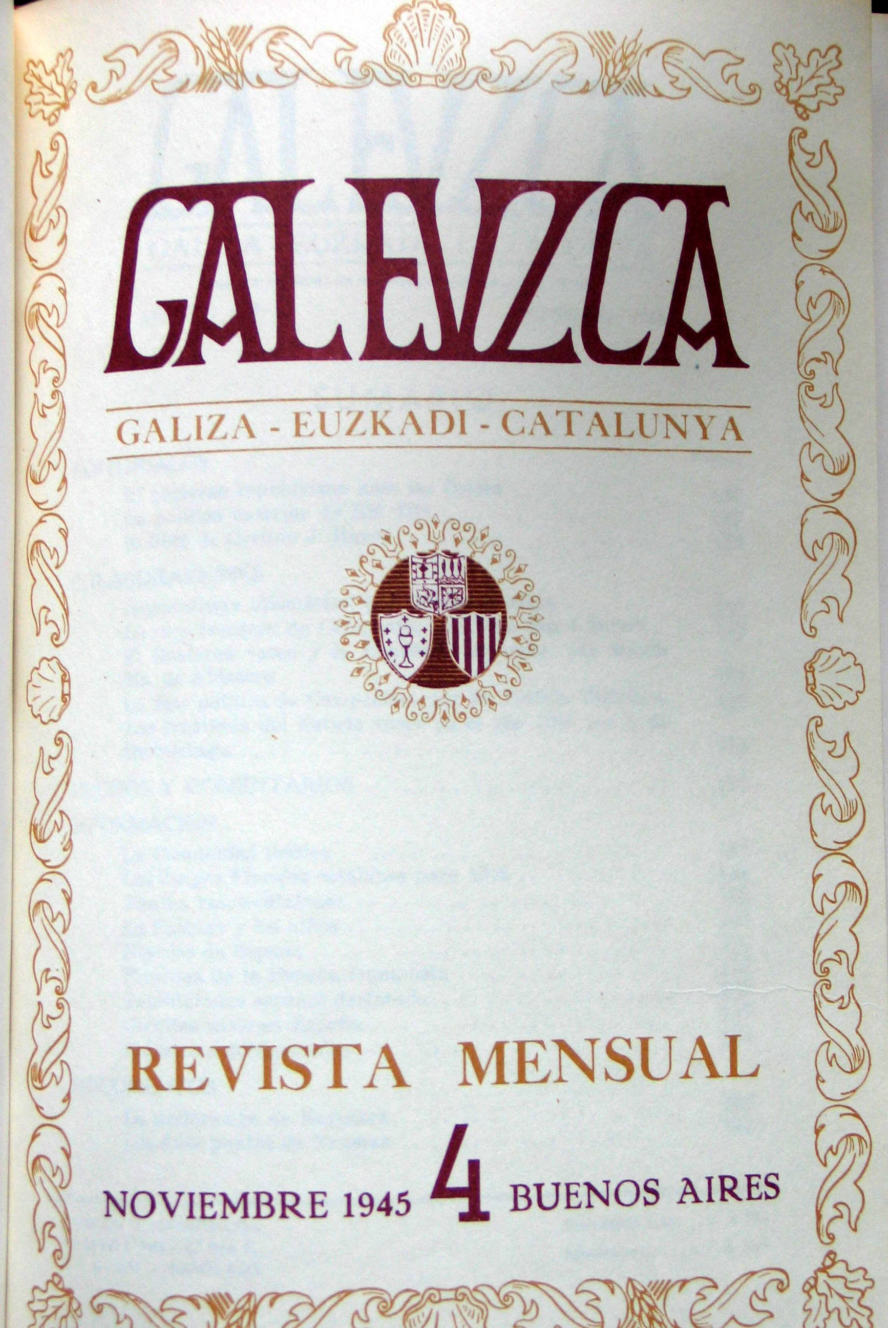 Galeusca Magazine. Buenos Aires